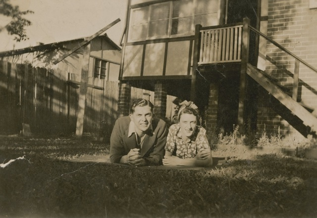 Informal portrait of Len Siffleet and his fiancee Clarice Lane relaxing in a backyard. On 24 October 1943, NX143314 Sergeant (Sgt) Leonard George (Len) Siffleet, along with his two Ambonese companions, was executed by order of Japanese Vice Admiral Kamada, who was in command of the Japanese fleet at Aitape, for his role as a wireless operator in a commando operation in Japanese occupied New Guinea. Sgt Siffleet was a member of the M Special Unit of the Services Reconnaissance Department (SRD).